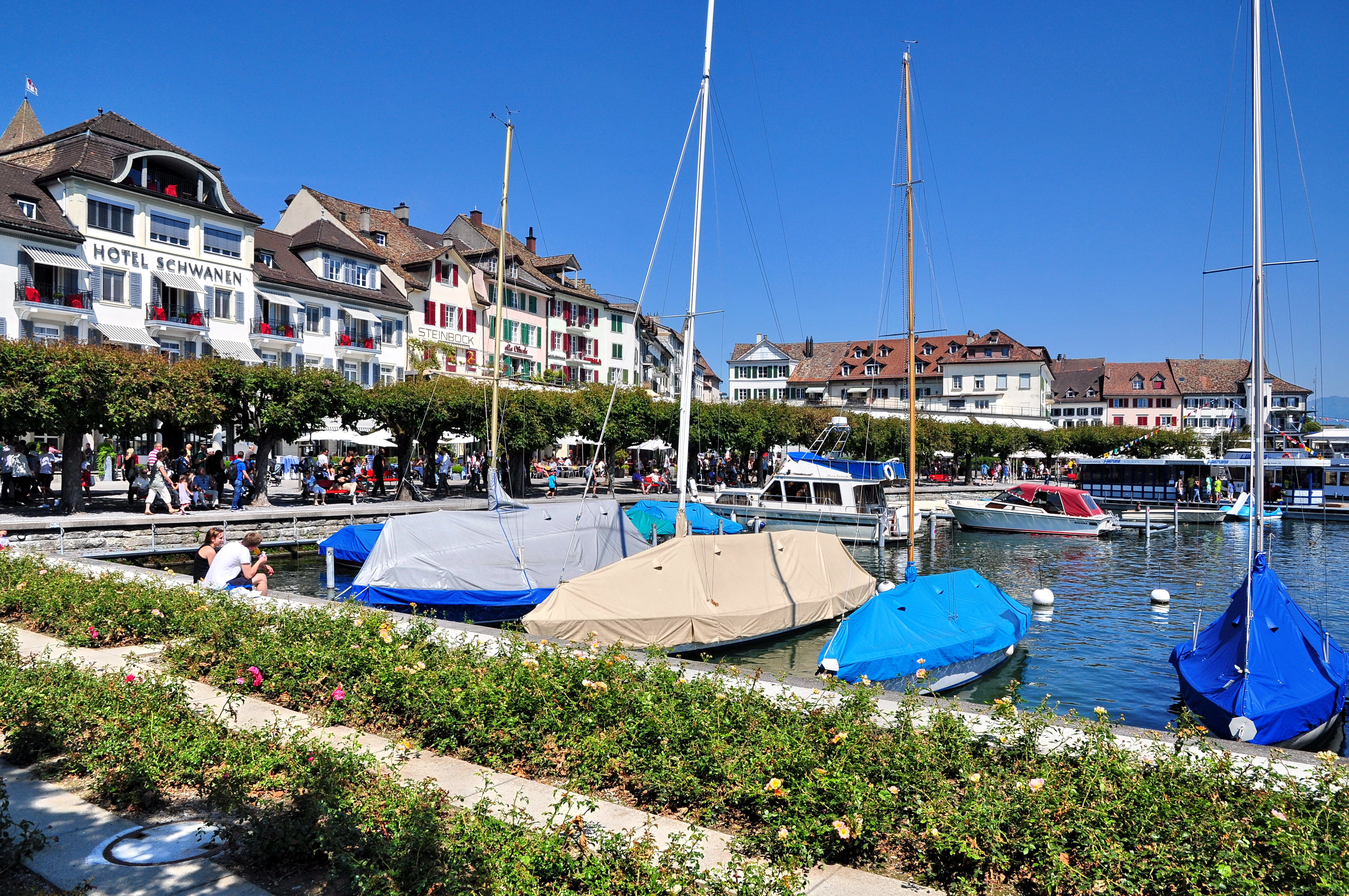 Harbour area respectively See-Quai in Rapperswil (Switzerland), Fischmarktplatz in the background to the right.